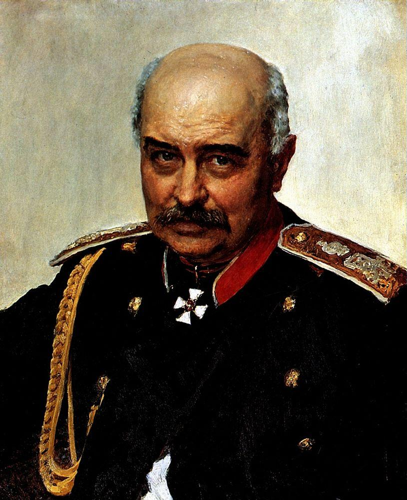 Portrait of general and statesman Mikhail Ivanovich Dragomirov.